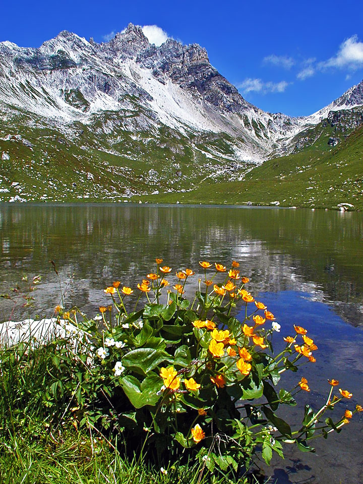 Faulkogel above Zaunersee